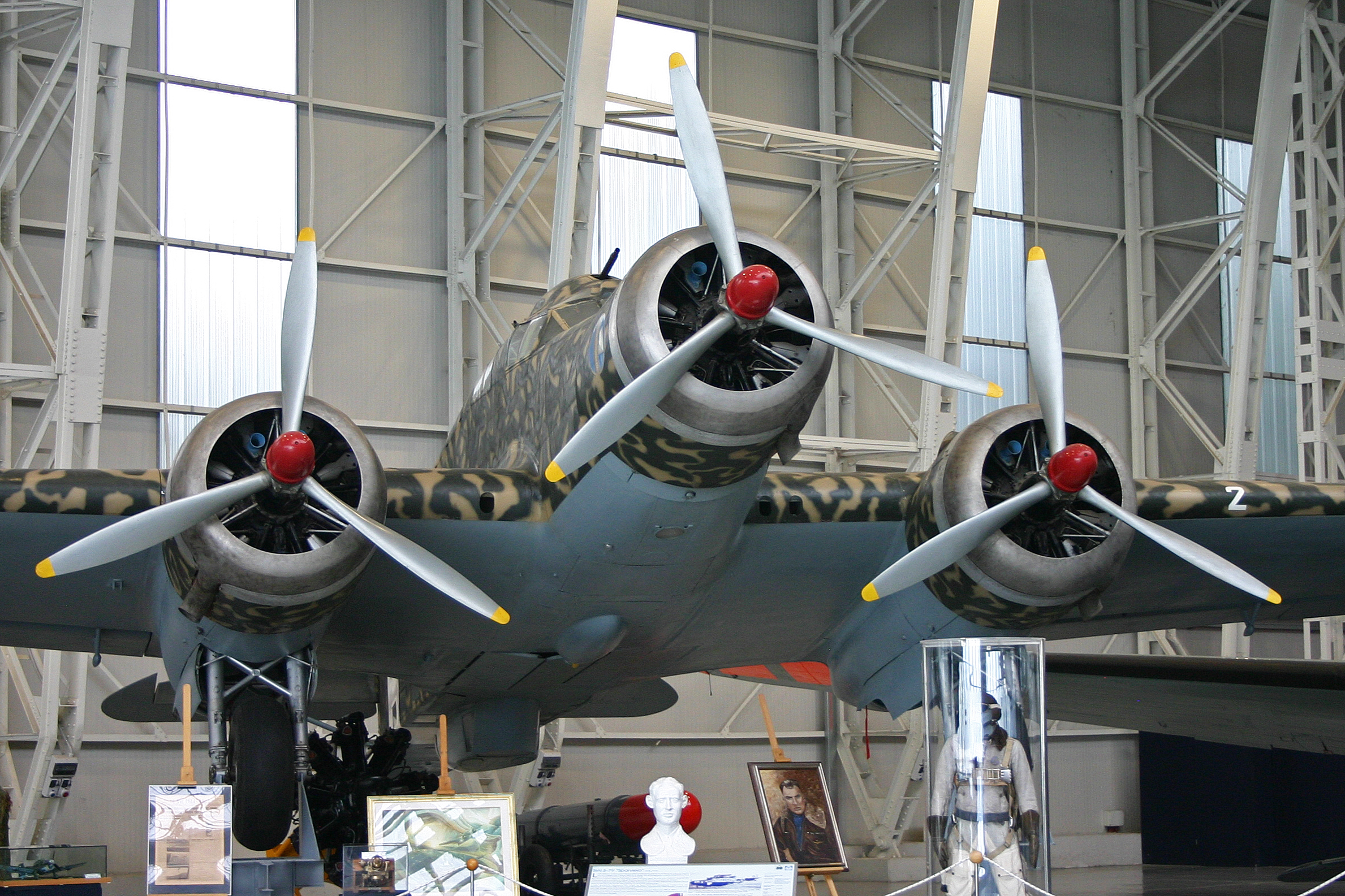 Displayed in Hangar BADONI. Previously L-112 and LR-AMB with the Lebanese AF. Believed to be MM45508 although displayed as MM24327.